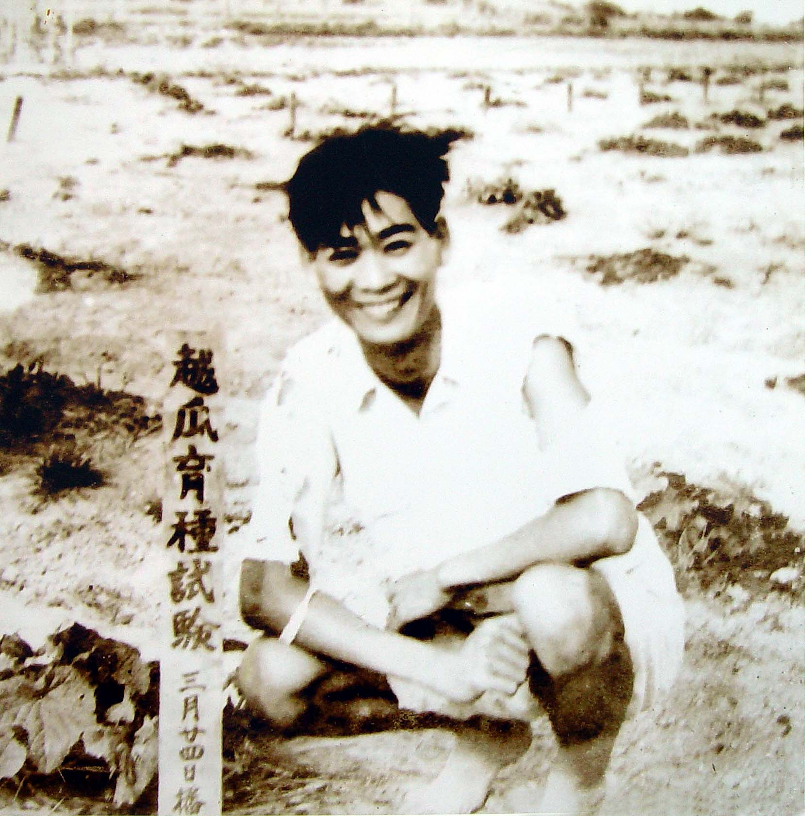 Chen Wen-Yu bred the new species of oriental pickling melon